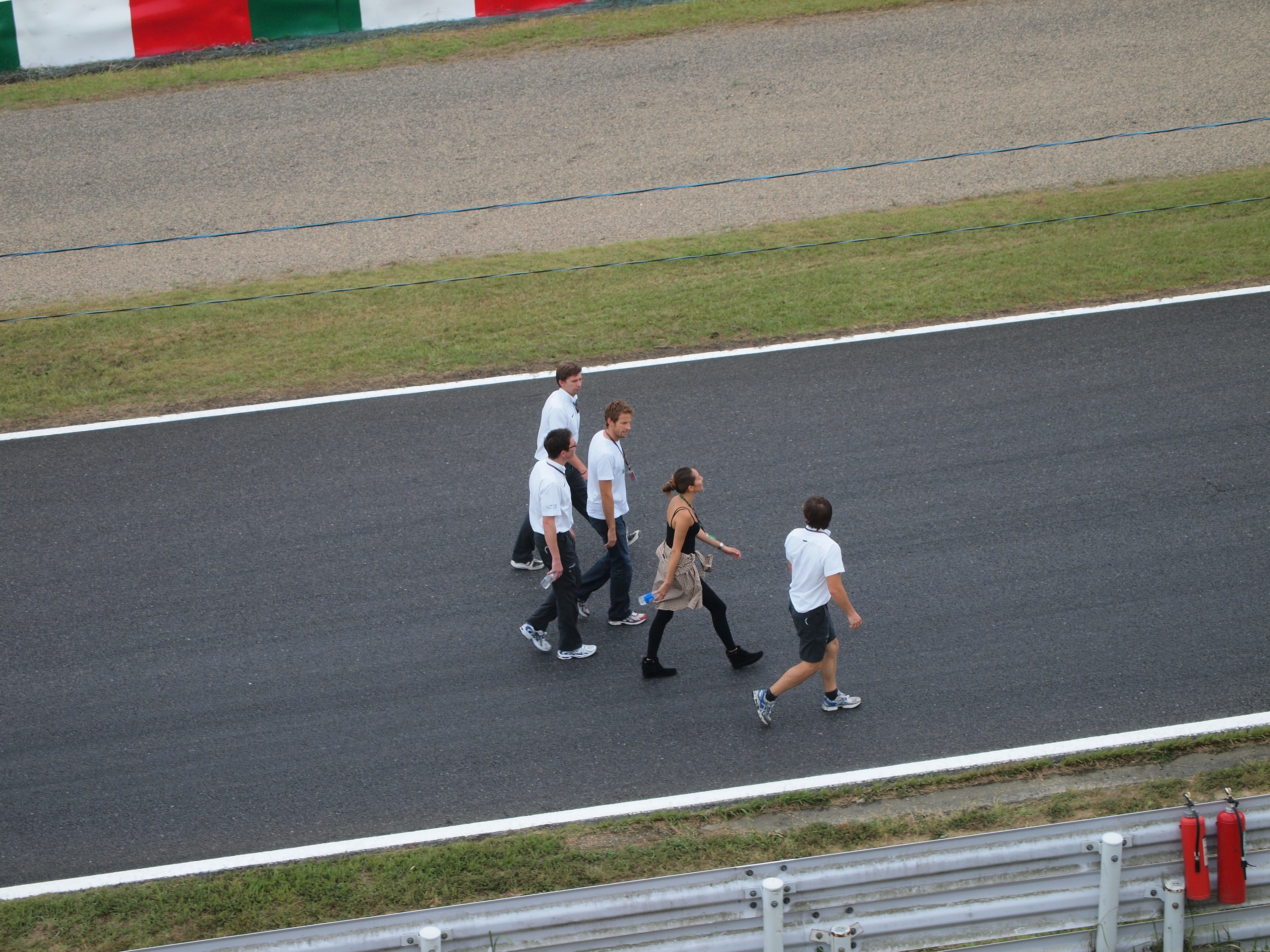 Jenson Button walk on the track with his girlfriend, Jesica Michibata, and some members of his team, Brawn GP (2009 Japanese Grand Prix).